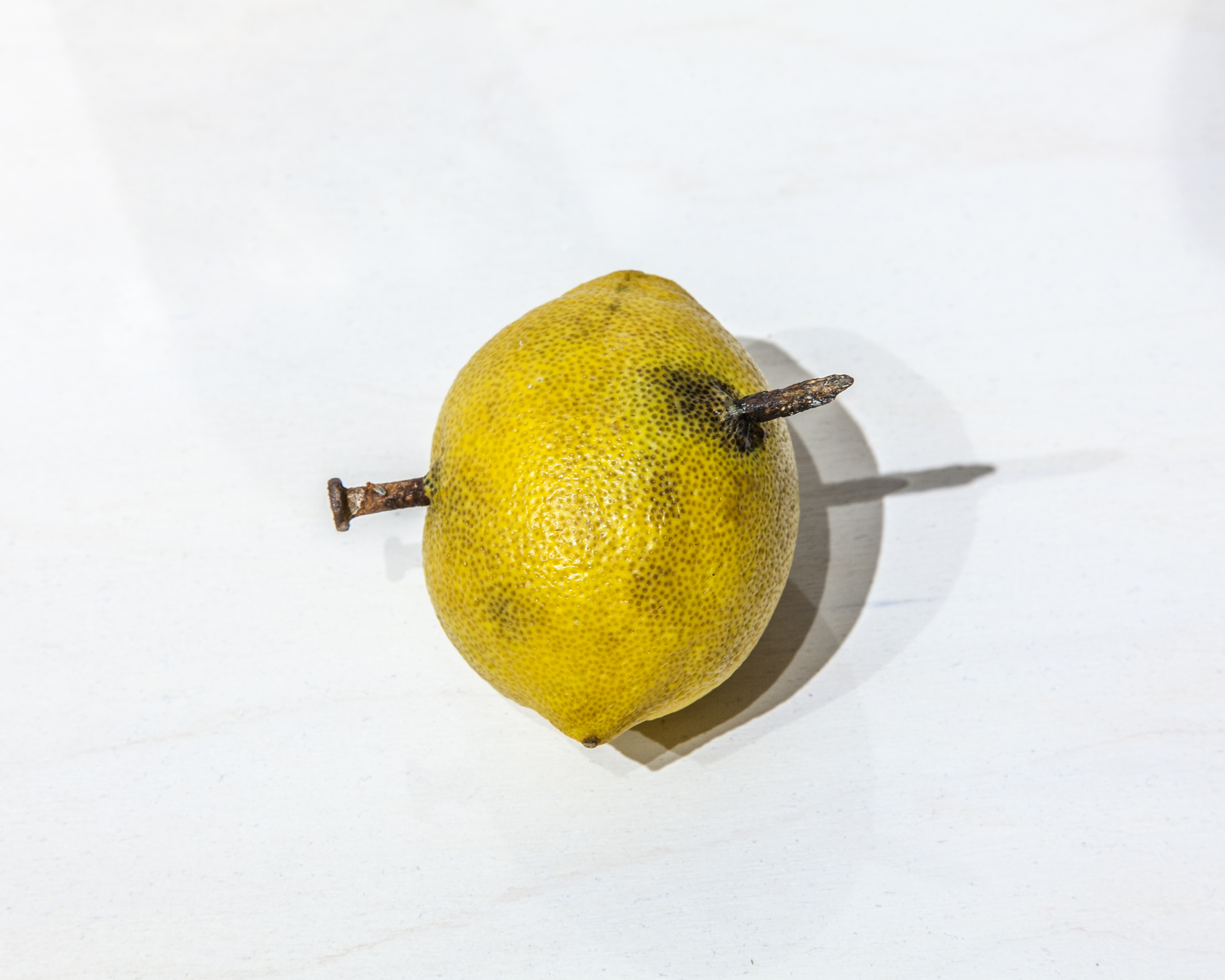 The superstitious practice of placing a rusty nail in a lemon is believed to ward off the evil eye and evil in general